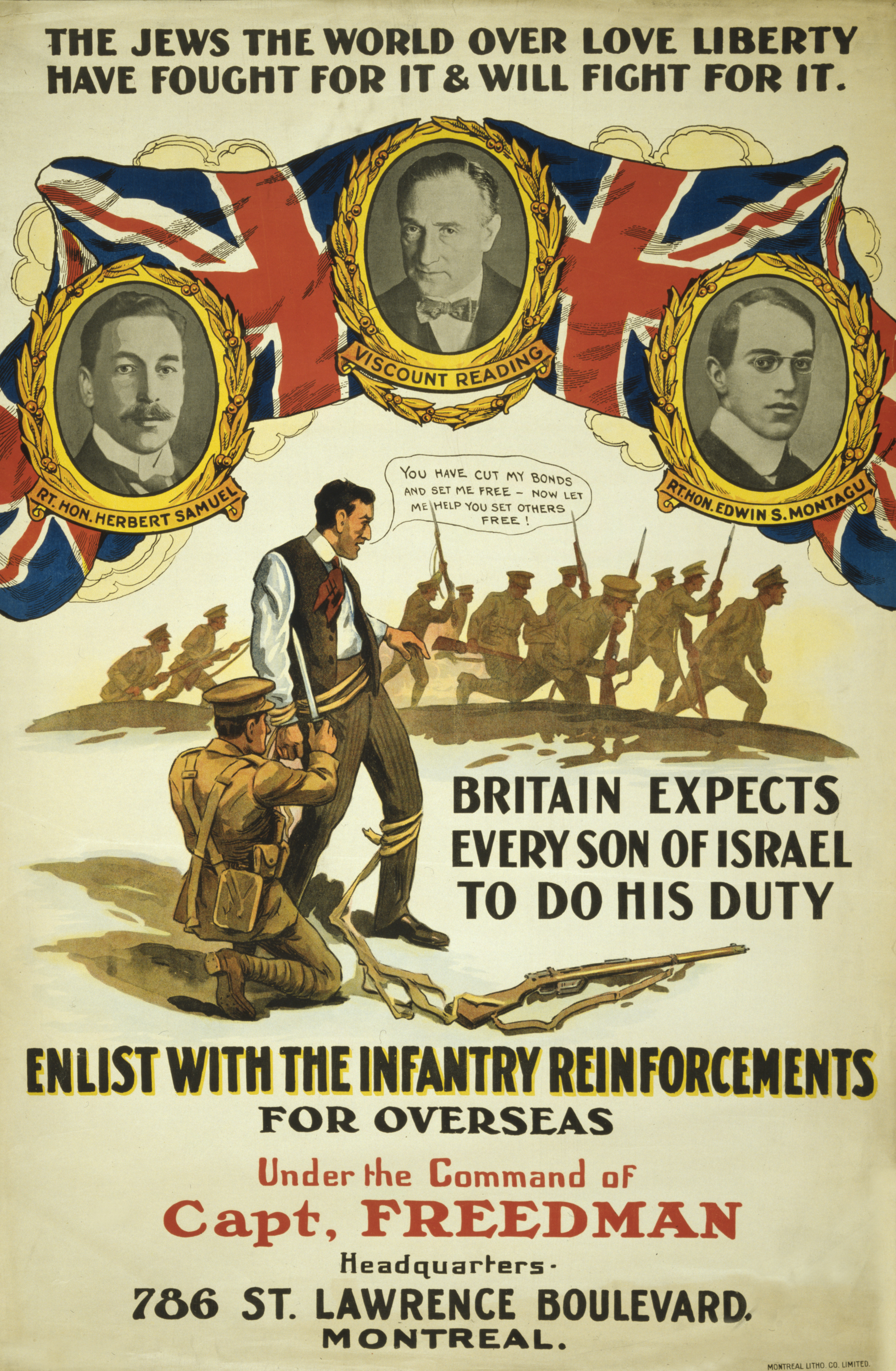 World War I enlistment poster from Canada. Poster shows a soldier cutting the bonds from a Jewish man, who strains to join a group of soldiers running in the distance and says, "You have cut my bonds and set me free - now let me help you set others free!" Above are portraits of Rt. Hon. Herbert Samuel, Viscount Reading, and Rt. Hon. Edwin S. Montagu, all Jewish members of the British parliament.